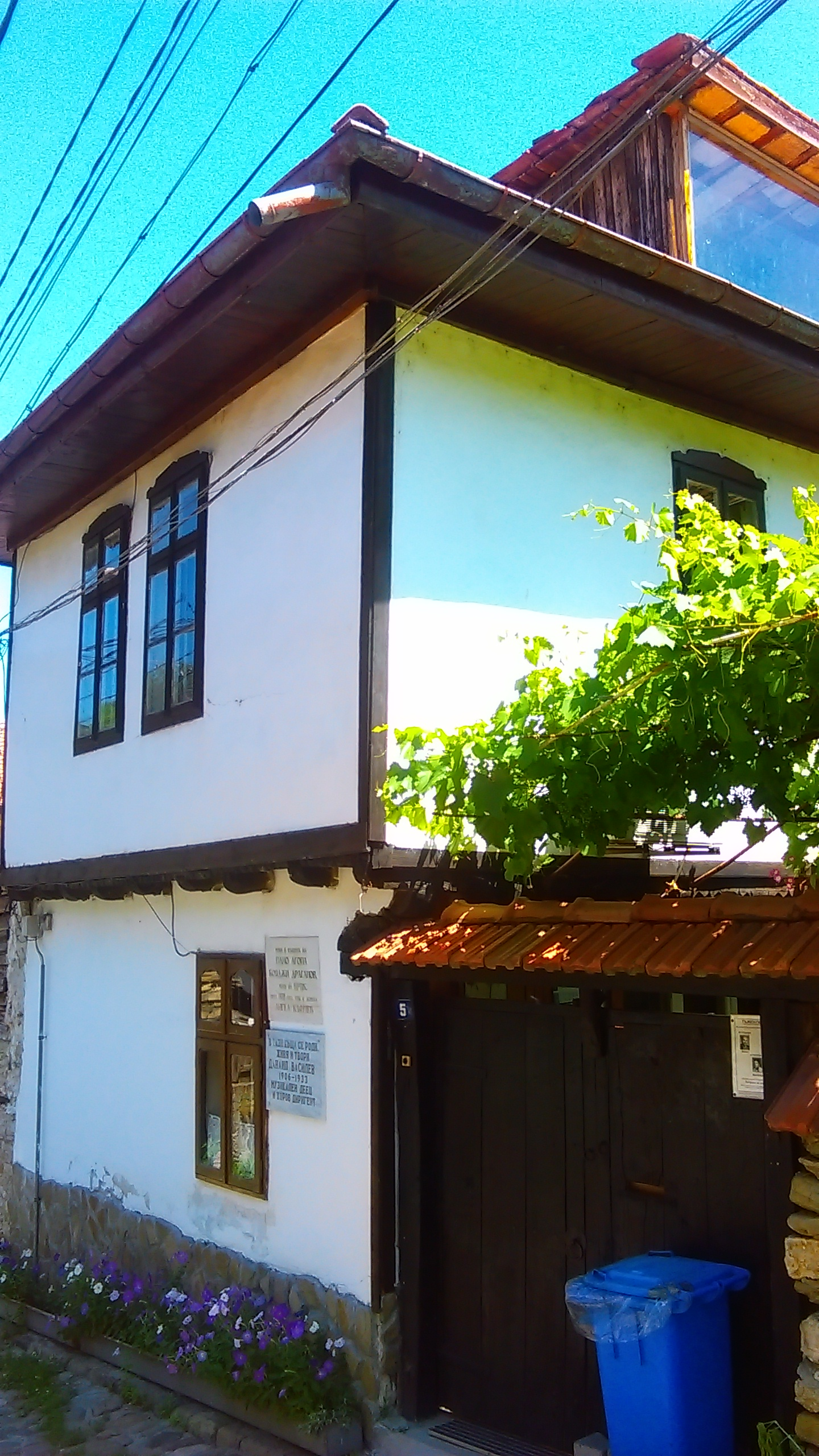 Pano Boyadji-Draganov's house in Lovech, Bulgaria